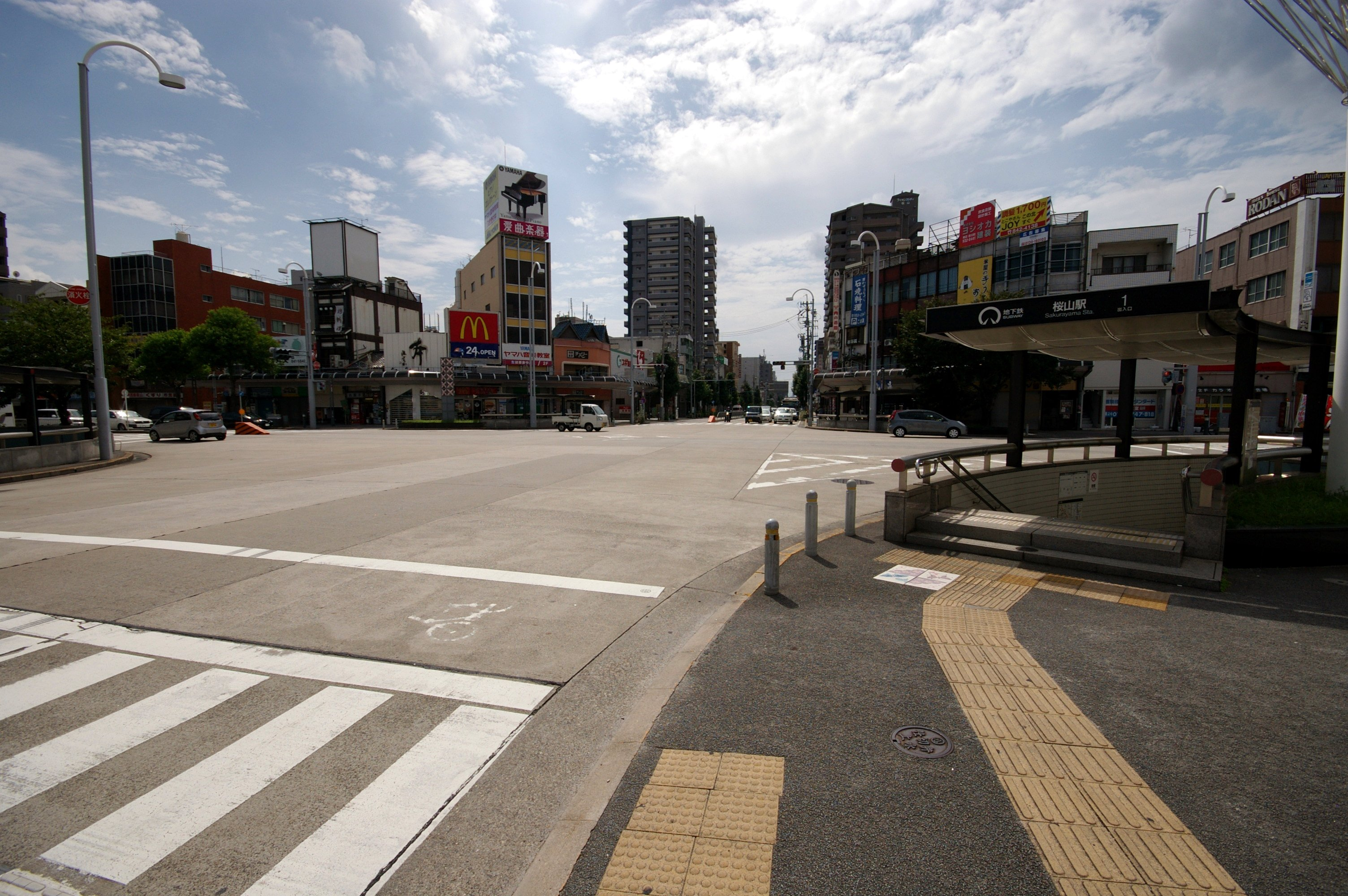 Nagoya Sakurayama Subway Station